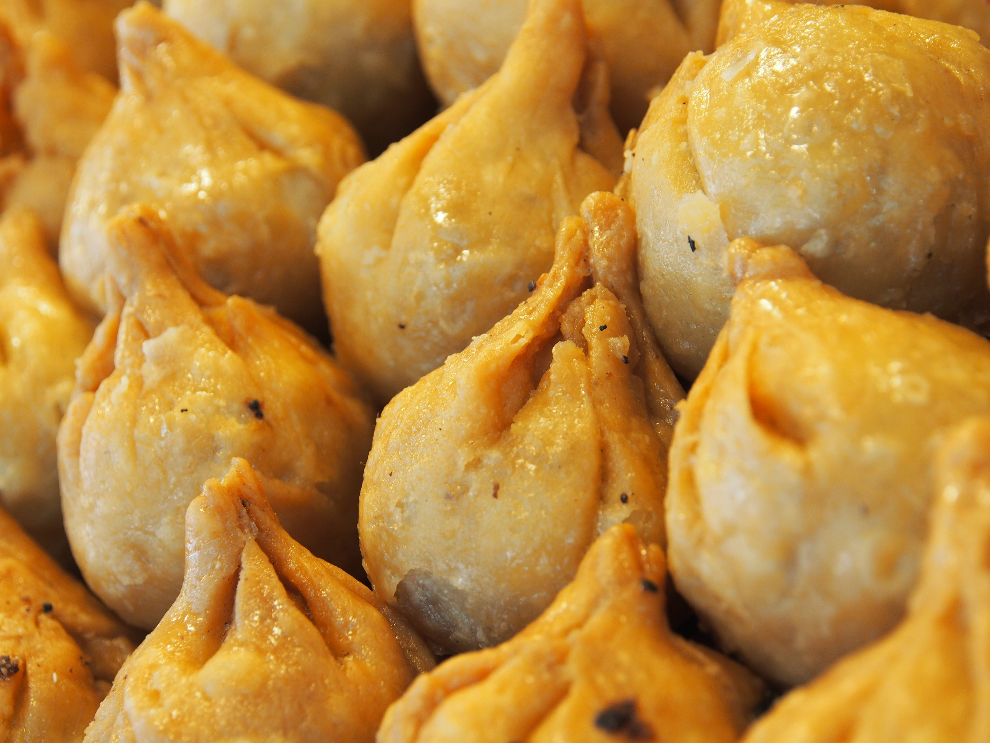 Modak, a sweet, belieived to be tha favourite of Ganesha kept for sale near Khajrana Ganesh Temple, Indore